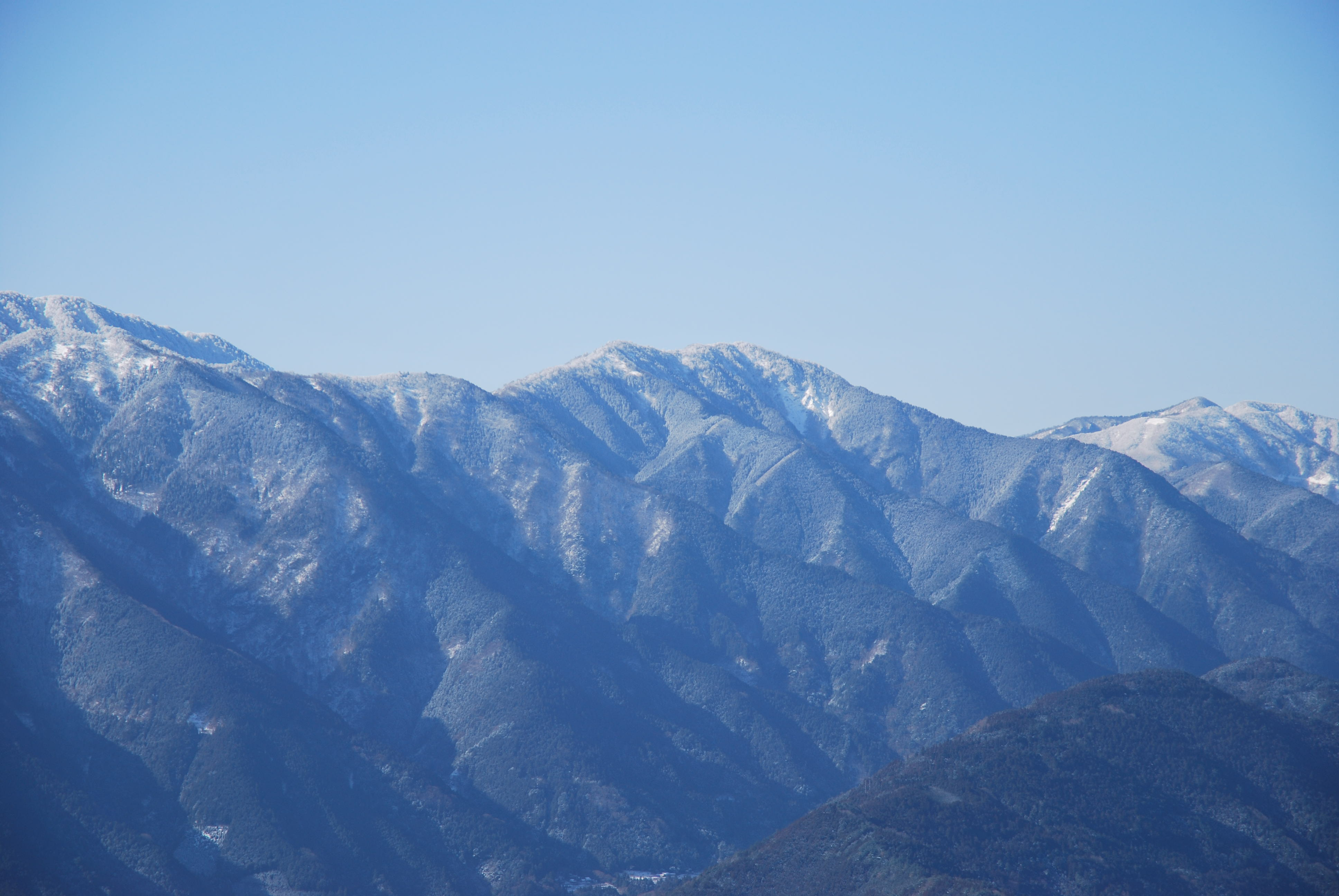 Mt. Tenjinmaru view from Mt. Shōzanji